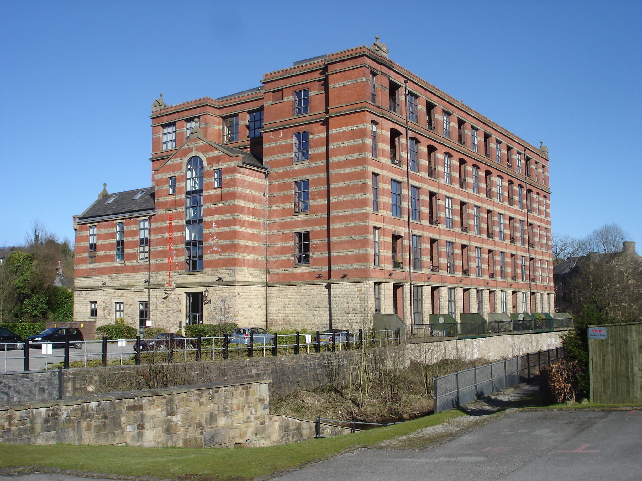 Brook Mill (No 3 Mill), Eagley Mills, Bolton